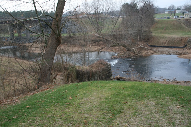 Pilings for the old bridge: Pilings for the 1930s–2006 Pembroke Pettit Bridge over the Rivanna River at Palmyra in Fluvanna County, Virginia. The 2007 replacement Pembroke Pettit Bridge, opened on the day of this photograph, is in the background.